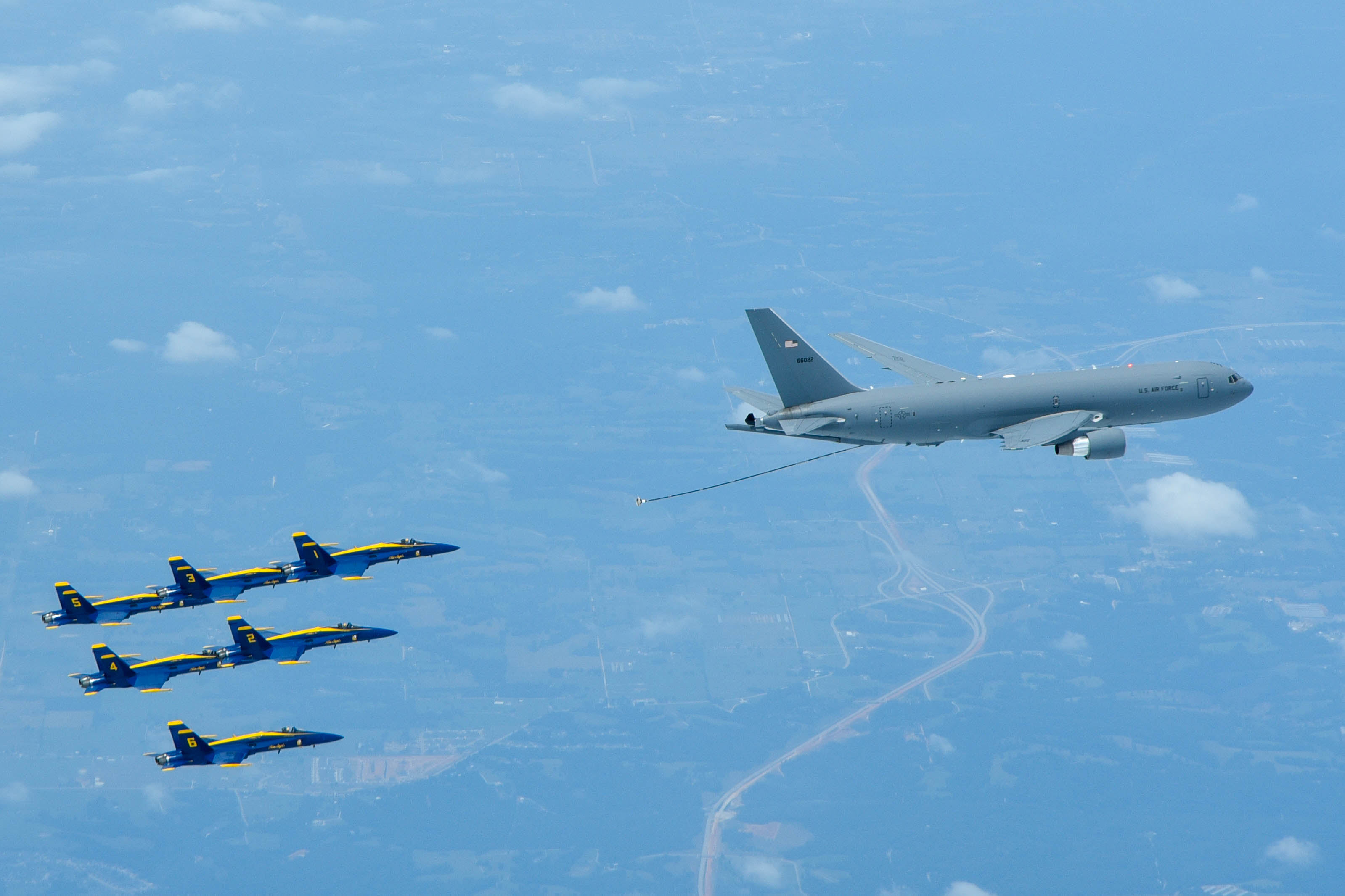 A KC-46 Pegasus assigned to the 931st Air Refueling Wing, McConnell Air Force Base, Kan., lines up to refuel an U.S. Navy Blue Angels F/A-18 Hornet, July 1, 2020 over South Dakota. This marks the first time the 931st ARW refueled the Blue Angels using a KC-46. The KC-46 represents the beginning of a new era in air-to-air refueling capability to support the U.S. Air Force, Navy and Marine Corps. The modernized fly-by-wire boom provides a larger air-refueling envelope than the KC-46’s predecessor, the KC-135 Stratotanker. In addition to the boom, the aircraft is capable of refueling through drogue and wing aerial fueling pods, or WARPs, to provide simultaneous multi-point air refueling. (U.S. Air Force photo by Maj. Andrea Morris)